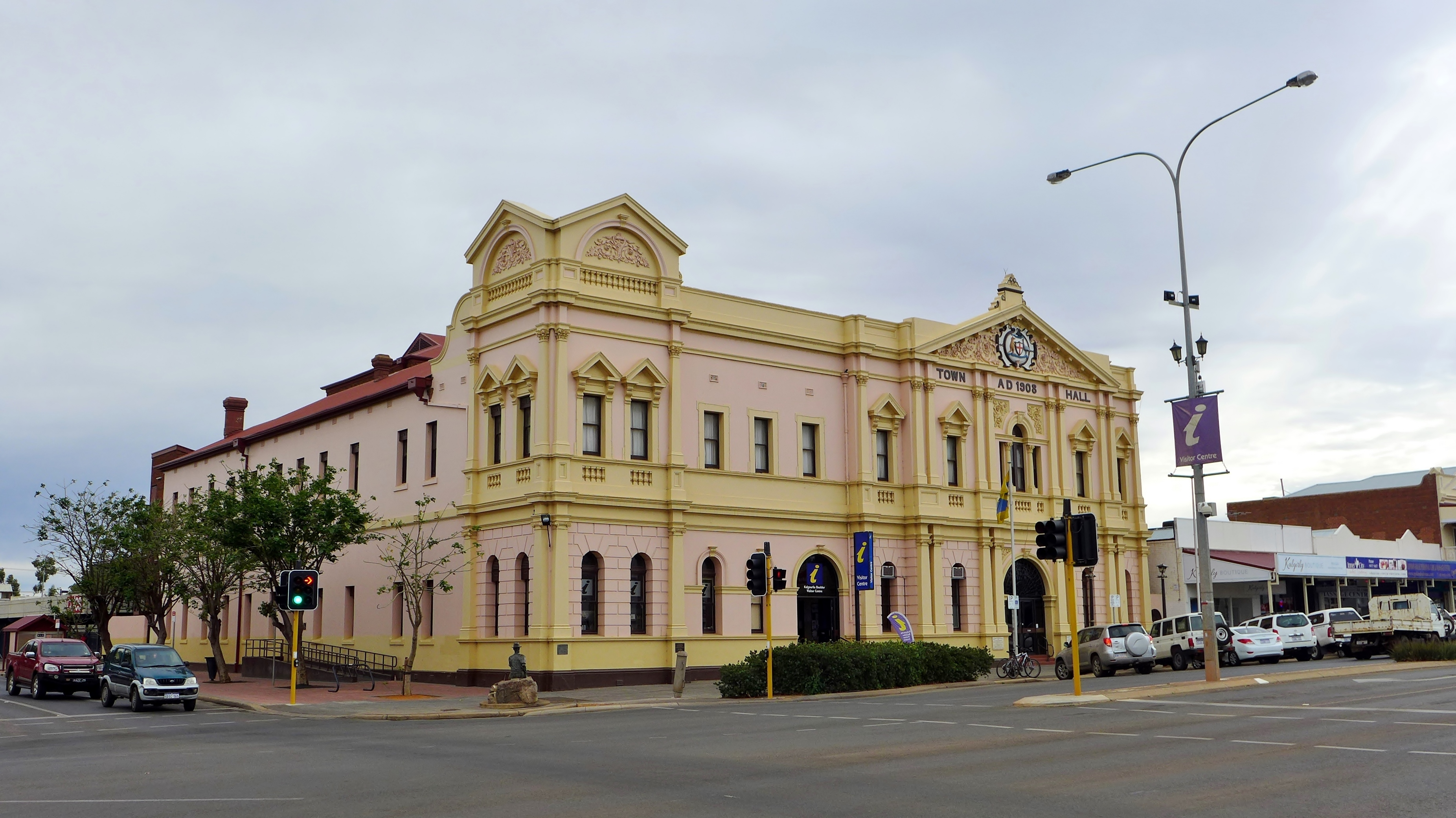 View of the Kalgoorlie Town Hall, cnr Hannan and Wilson Streets, Kalgoorlie, Western Australia.